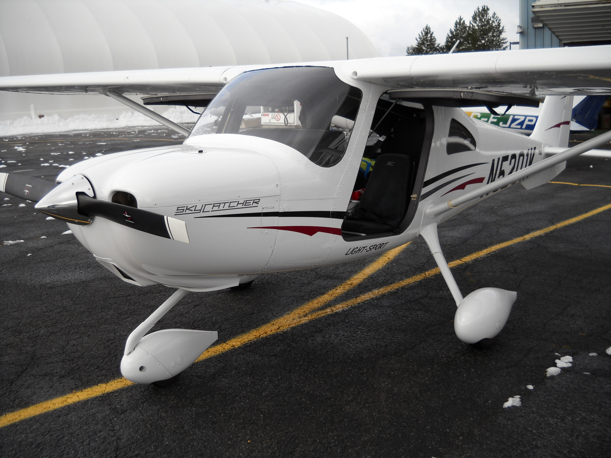 Cessna 162 Skycatcher serial number 16200010 at the Ottawa Flying Club